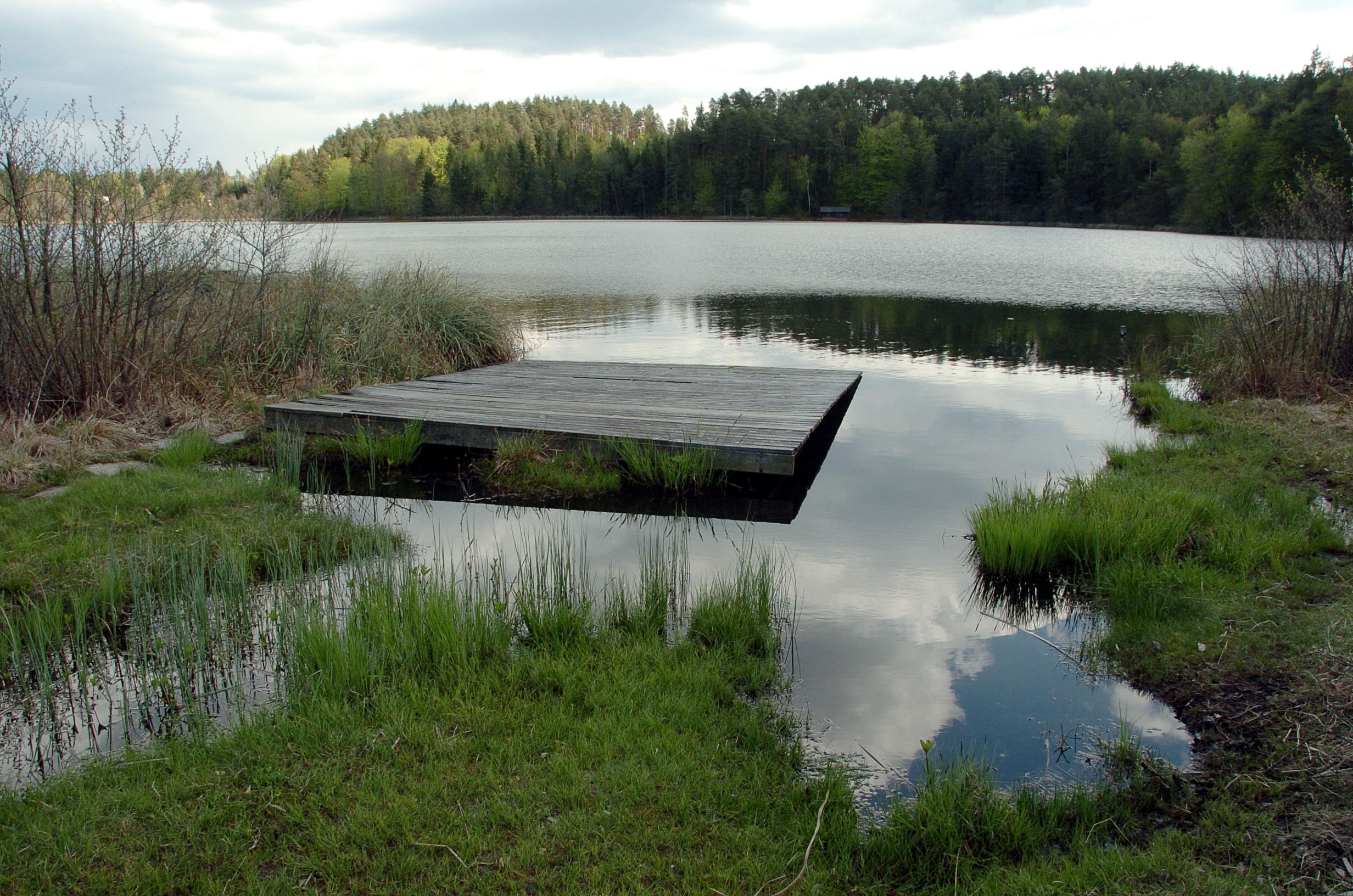 Lake Saisser (Saisser See = Jeserzer See) in the community Velden, Villach-Land, Carinthia, Austria